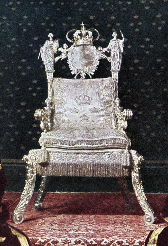 Queen Christina's silver throne. The Throne of Sweden designed by Abraham Drentwett in Augsburg on the order of Magnus Gabriel De la Gardie who donated it to Queen Christina (Kristina); a gift to Queen Christina for her coronation in 1650.Location: National Hall, Royal Palace, Royal Palace, Stockholm, Sweden.